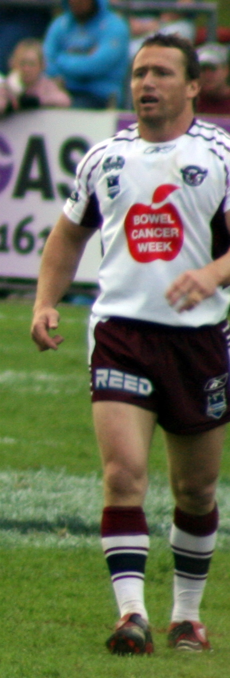 matt orford at brookie